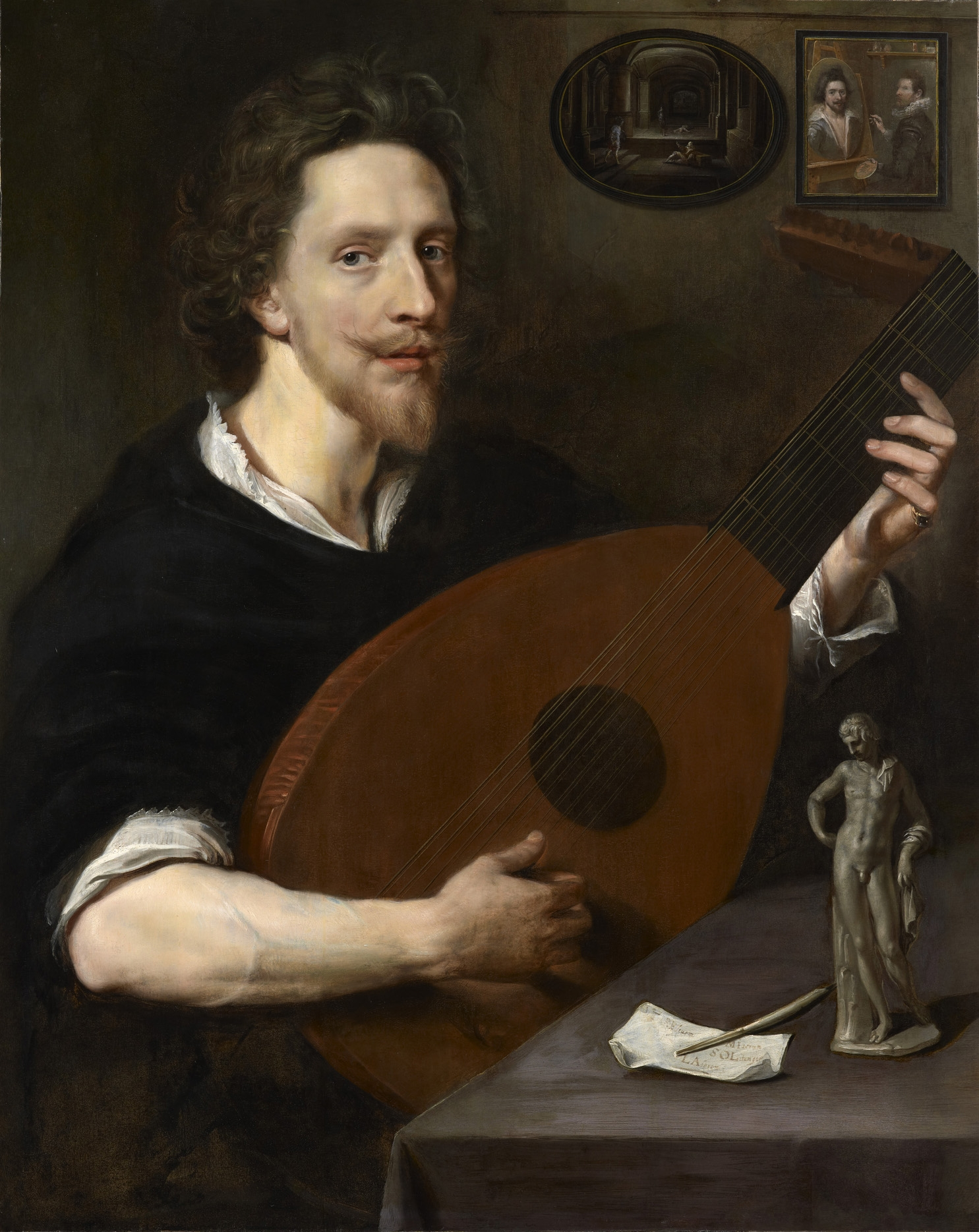 Portrait of Nicholas Lanier (1588–1666), playing a lute.